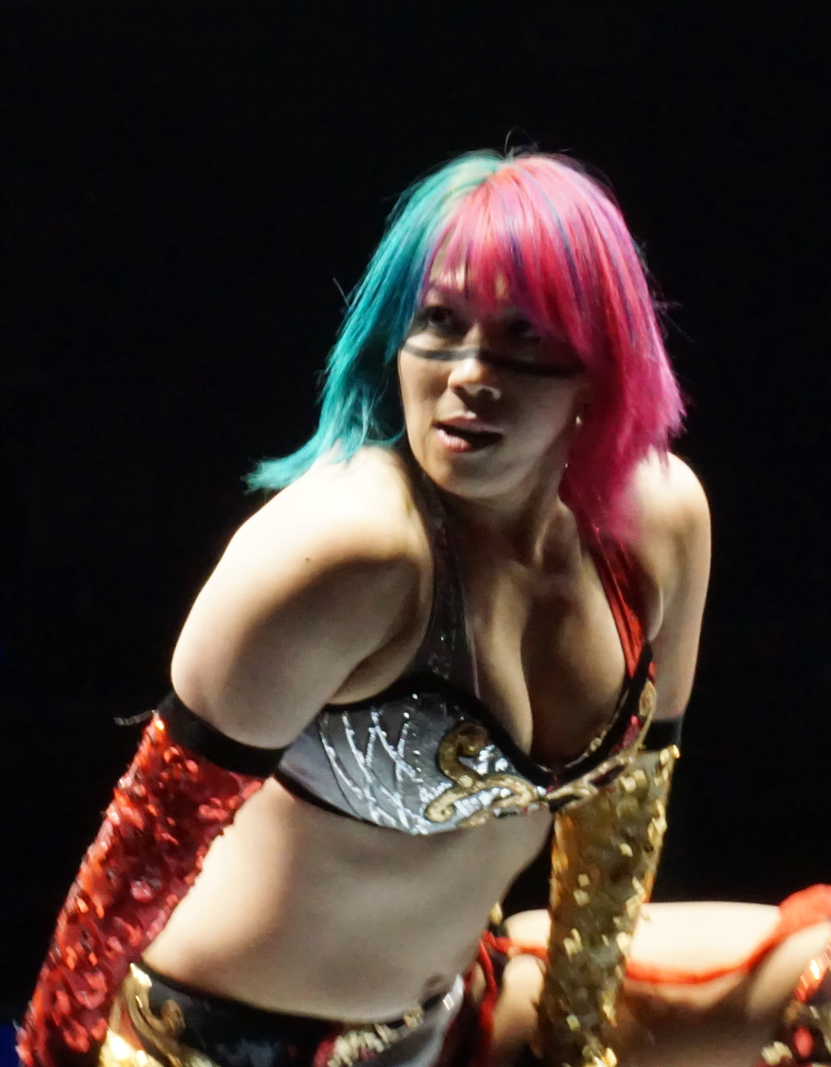 Asuka at the WWE live show in Buffalo, NY.